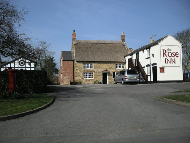 The Rose Inn, Willoughby, Warwickshire: restored after fire damage at the end of 2007